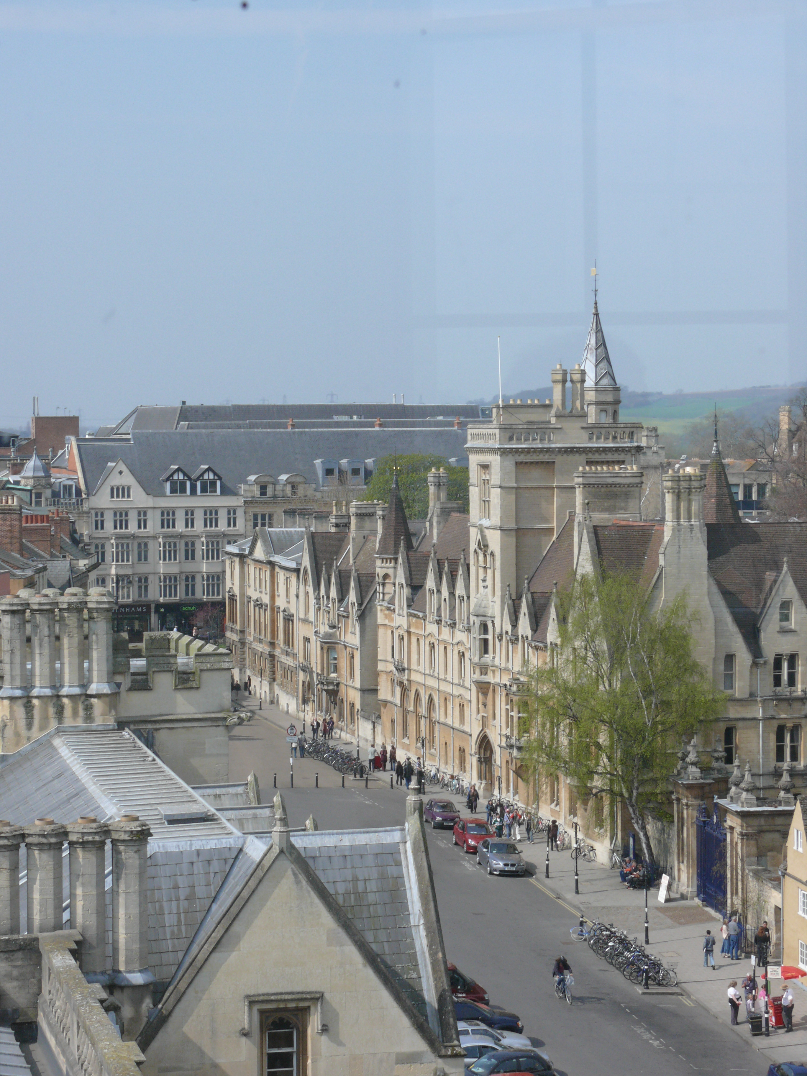 The Broad Street frontage of Balliol College in Oxford. Seen from the top of the Sheldonian Theatre